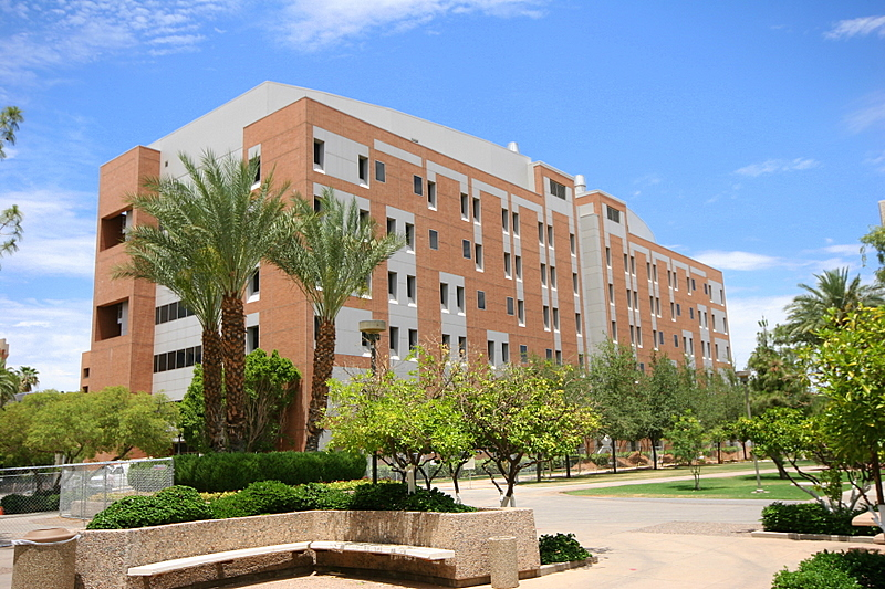 Goldwater Engineering Research Building, Arizona State University.